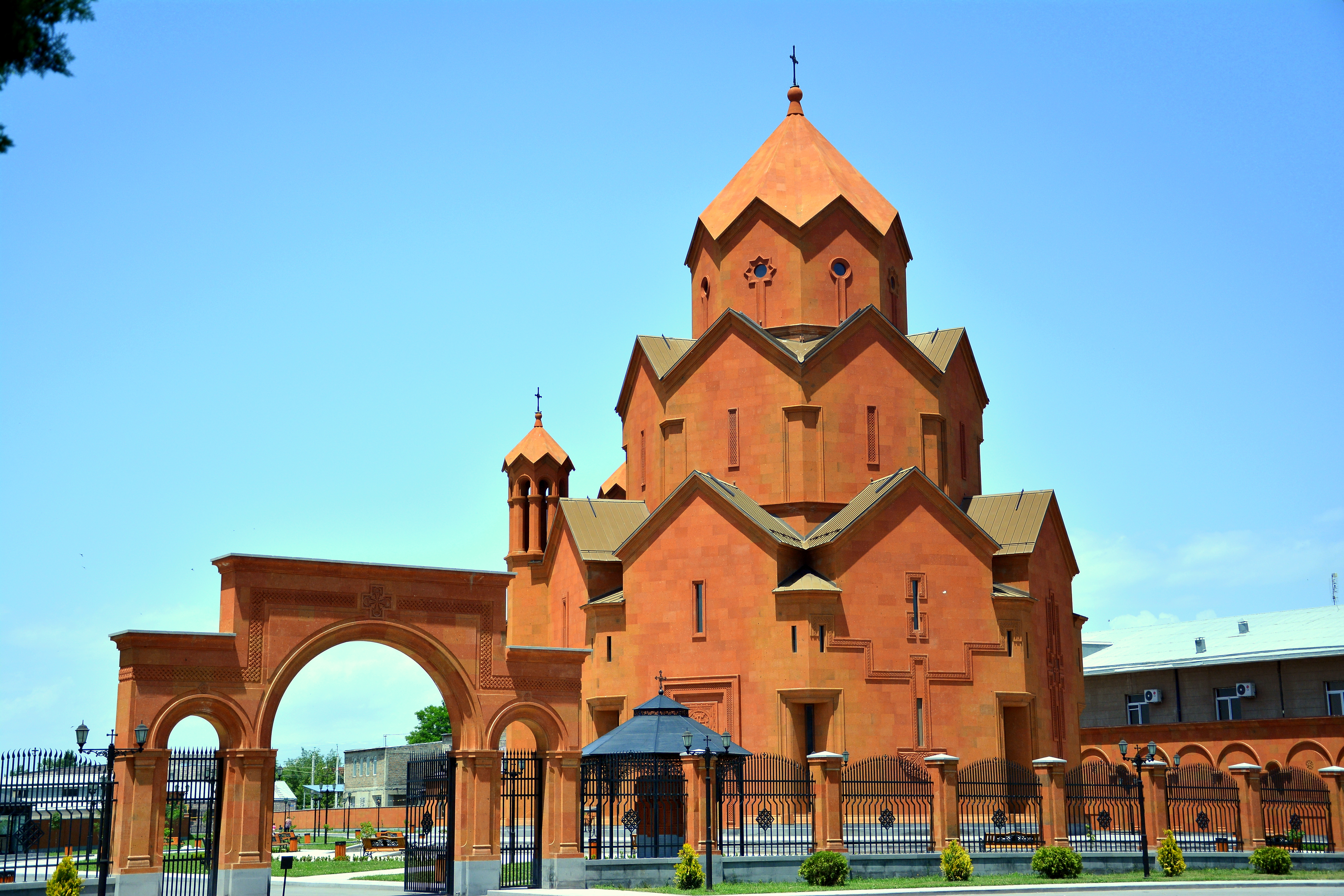 Saint Tadeos new church in Masis